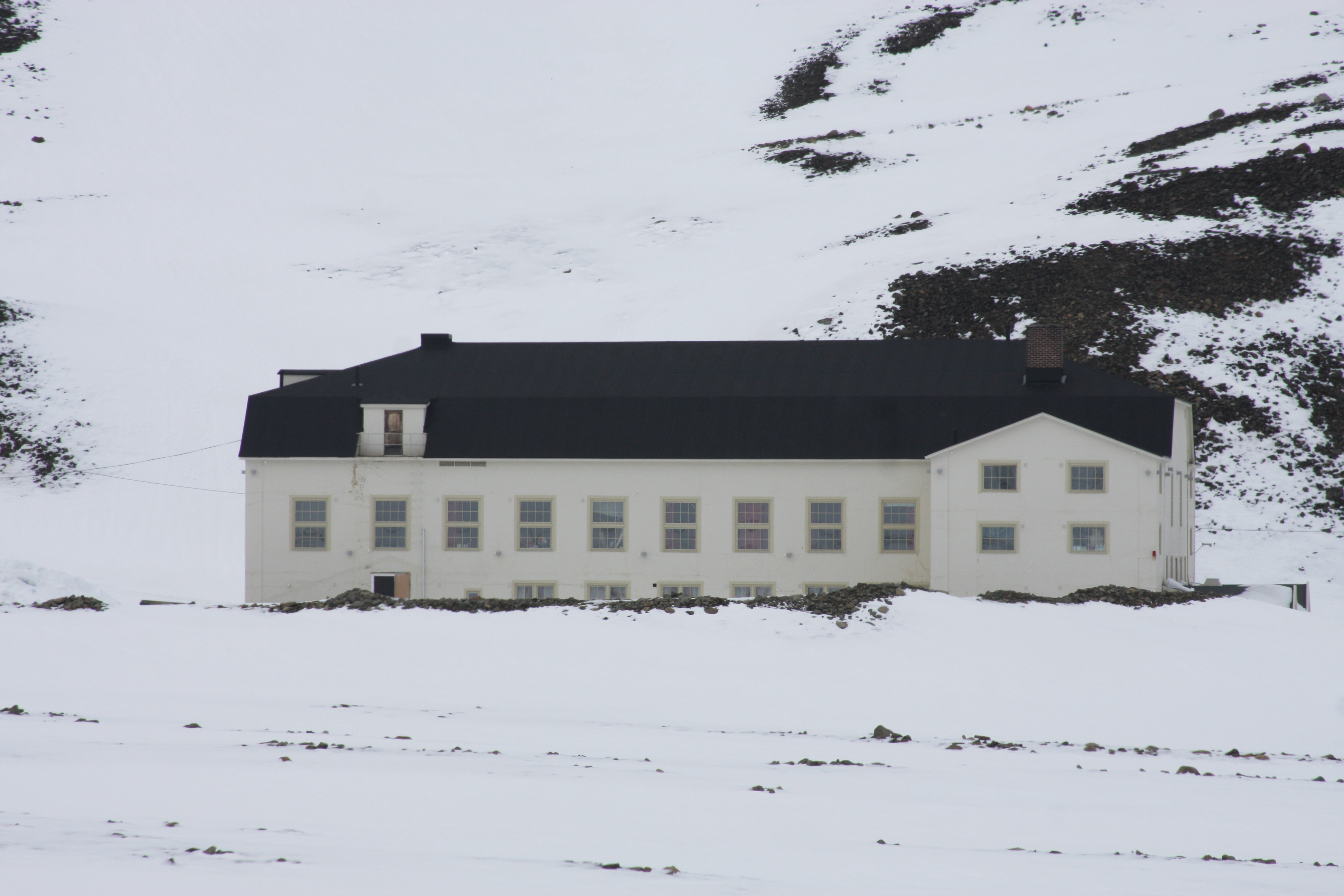 "Huset", public house in Longyearbyen